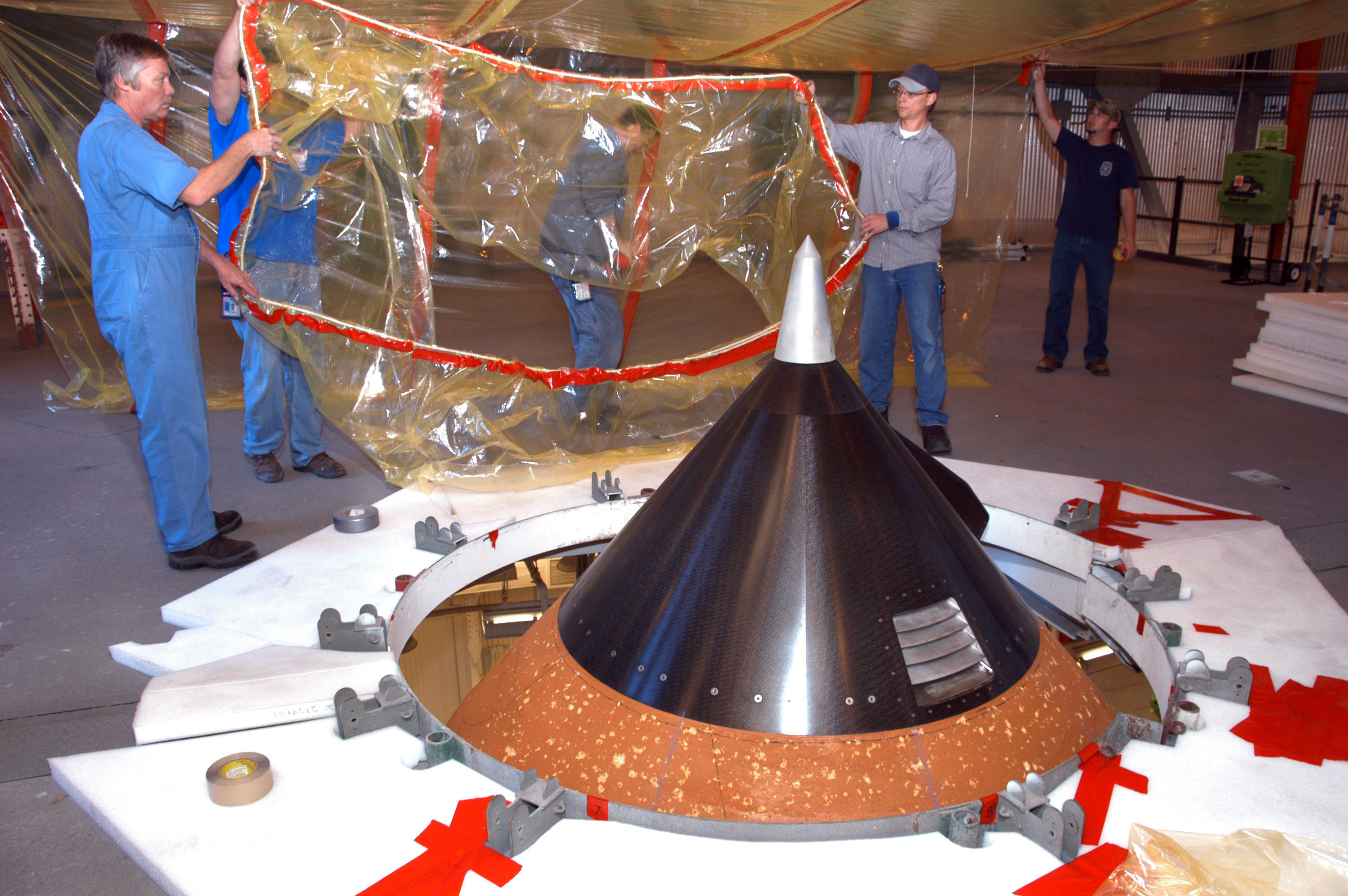 STS-117 External Tank has arrived in the VAB